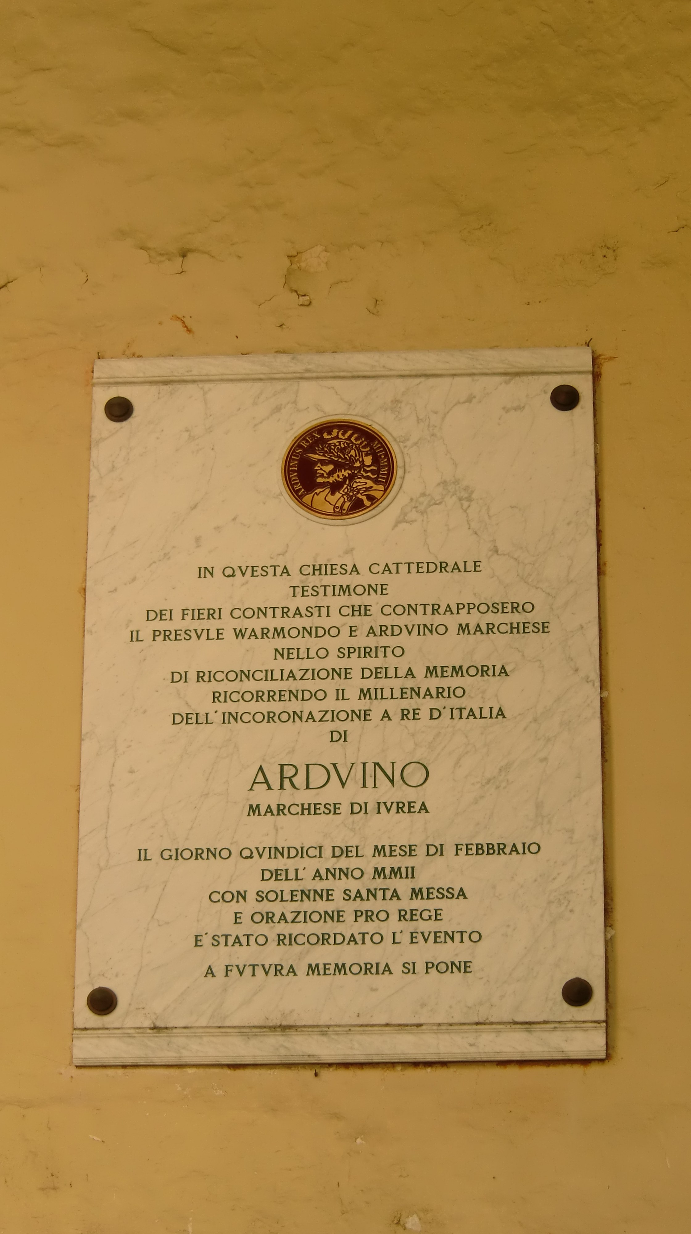 Ivrea, Cathedral, memorial plaque on the side entrance of the cathedral (declaring the conciliation of the church with Arduino d'Ivrea)